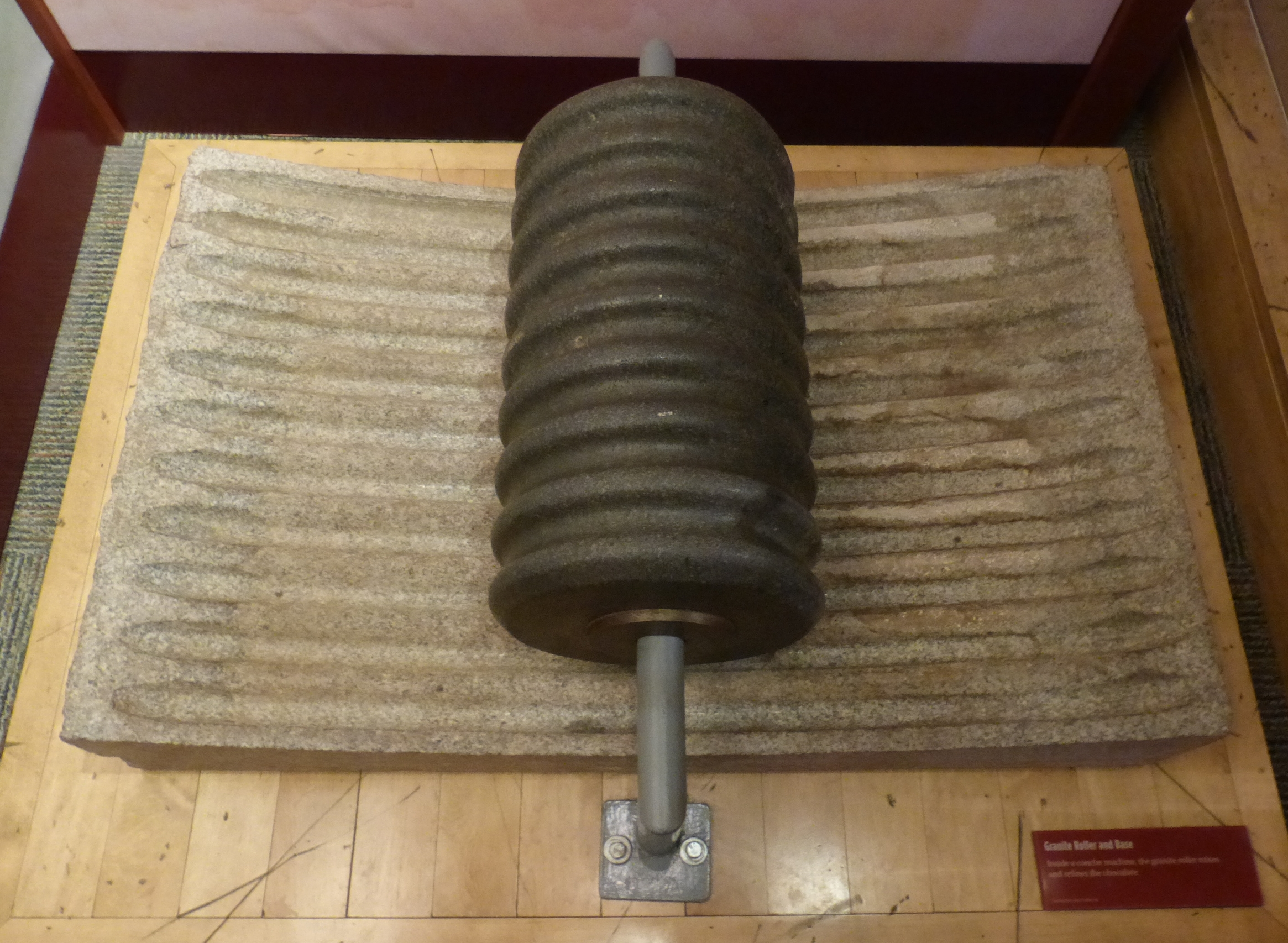 Granite roller and Granite base of a conche used by Hershey in the early 1900s. This is on display as part of the Hershey Story Collection.